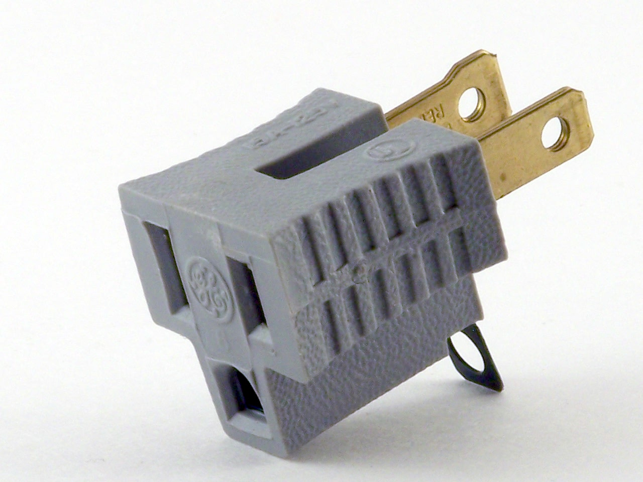 A cheater plug, also known as a three-prong/two-prong adapter. The adapter allows a NEMA 5–15P grounding mains plug to connect to a NEMA 1–15R non-grounding receptacle.